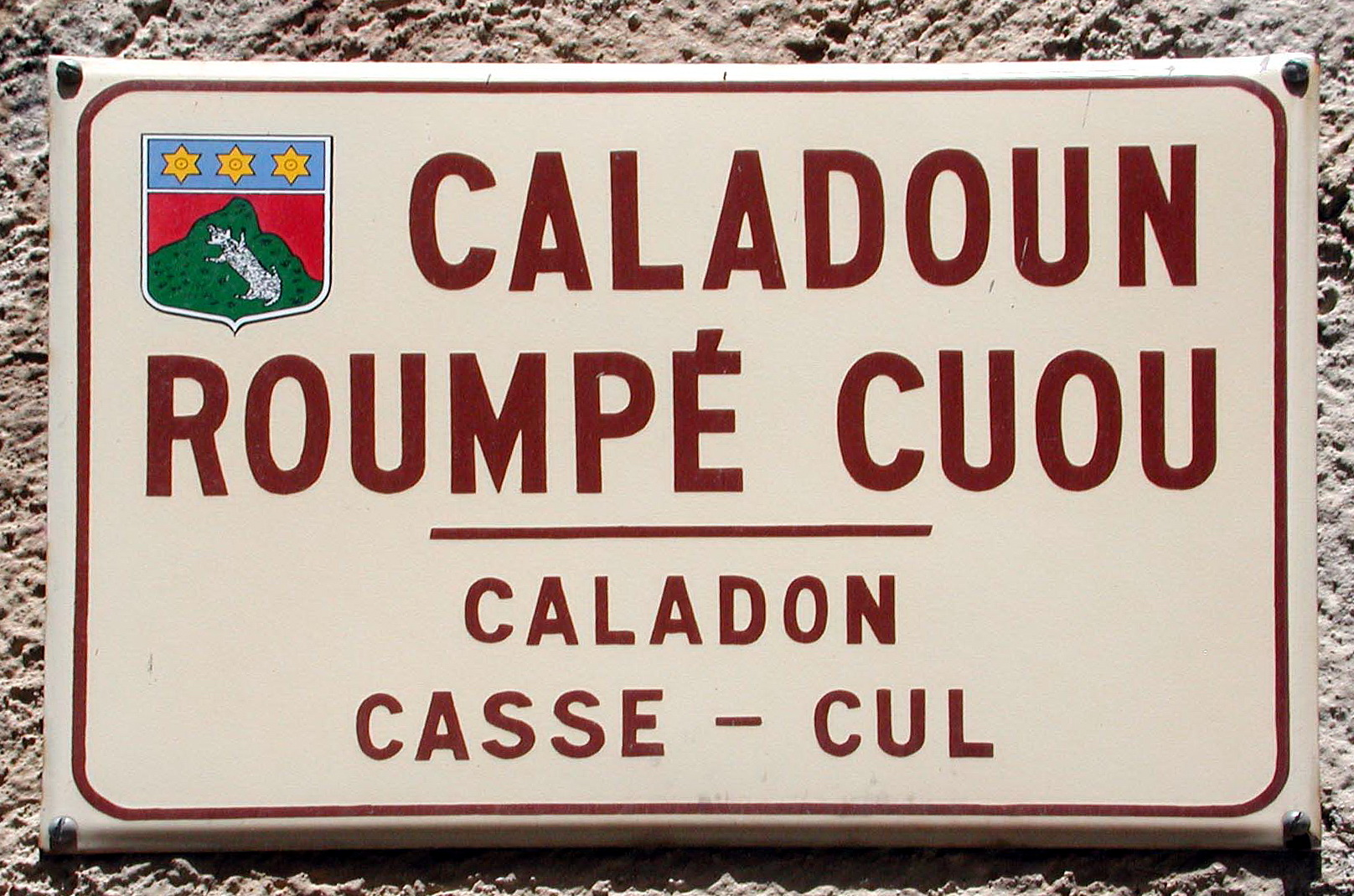 Mons(Var): street sign in provençal